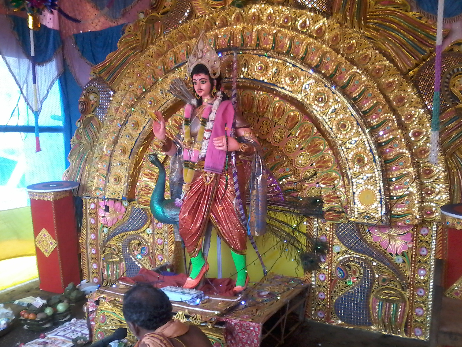 idol of lord kartikey